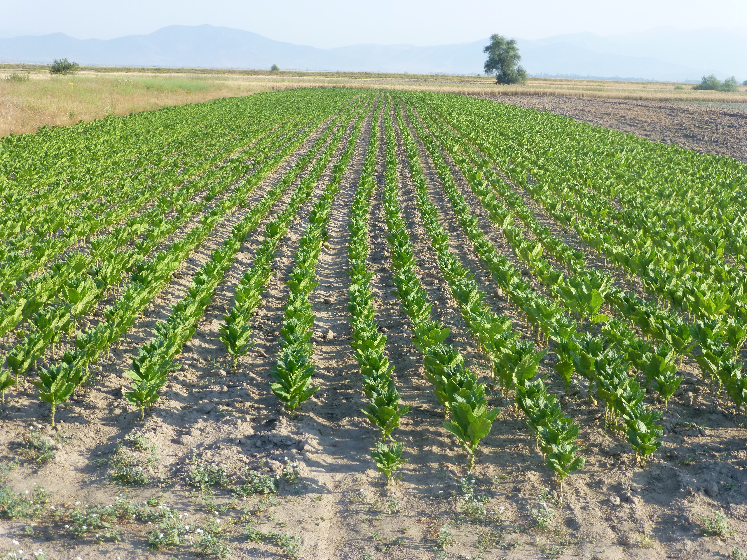 A tobacco field in the Prilepsko Pole (Prilep Flatland), just east of Krivogaštani.